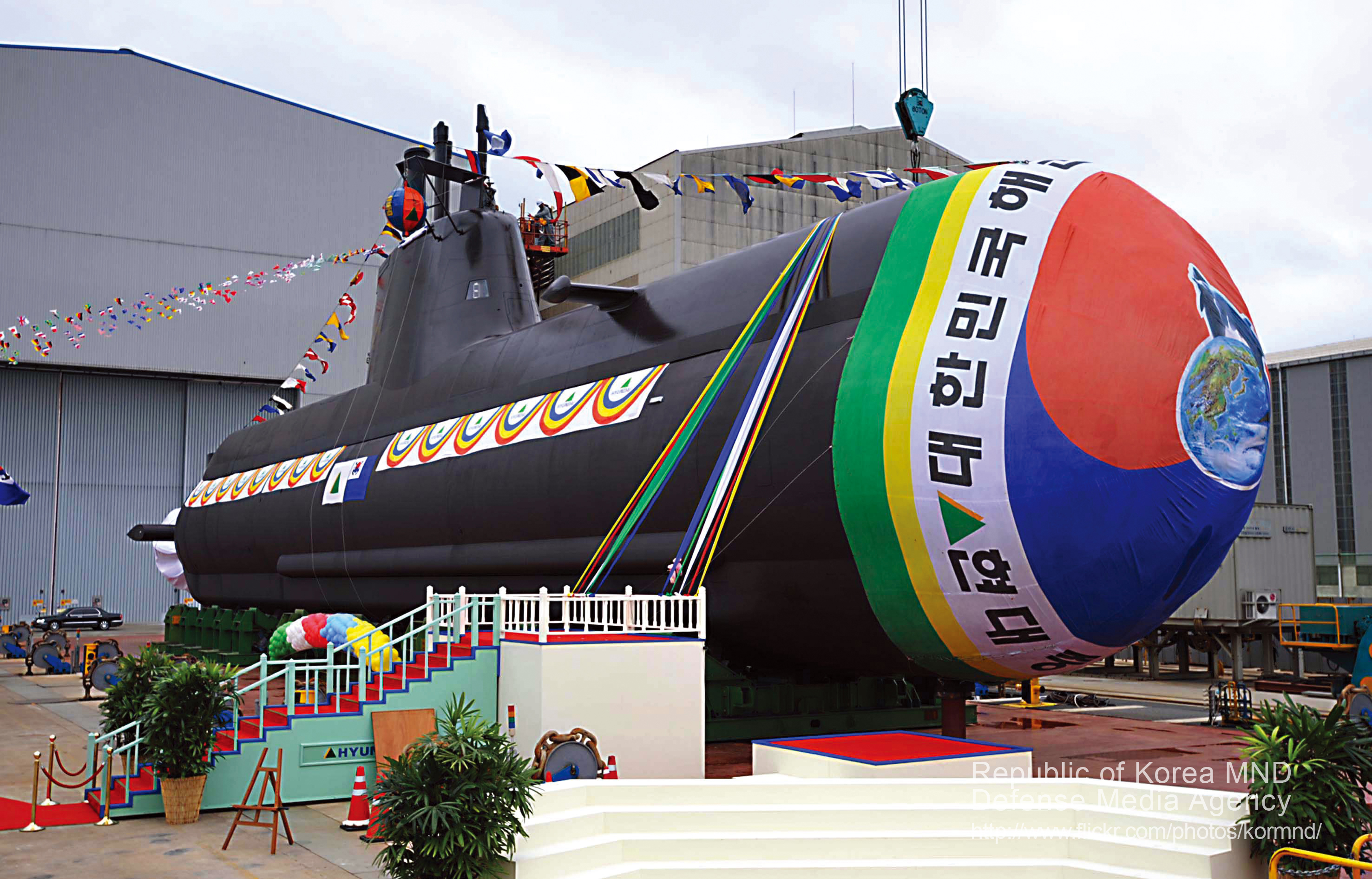 2008 국방화보 Rep. of Korea, Defense Photo Magazine 6월 4일 울산 현대중공업에서 진수된 1,800톤급 잠수함 안중근함. ROK Navy's new submarine of 1,800t class Anjoongkeun launched at Ulsan on June 4.